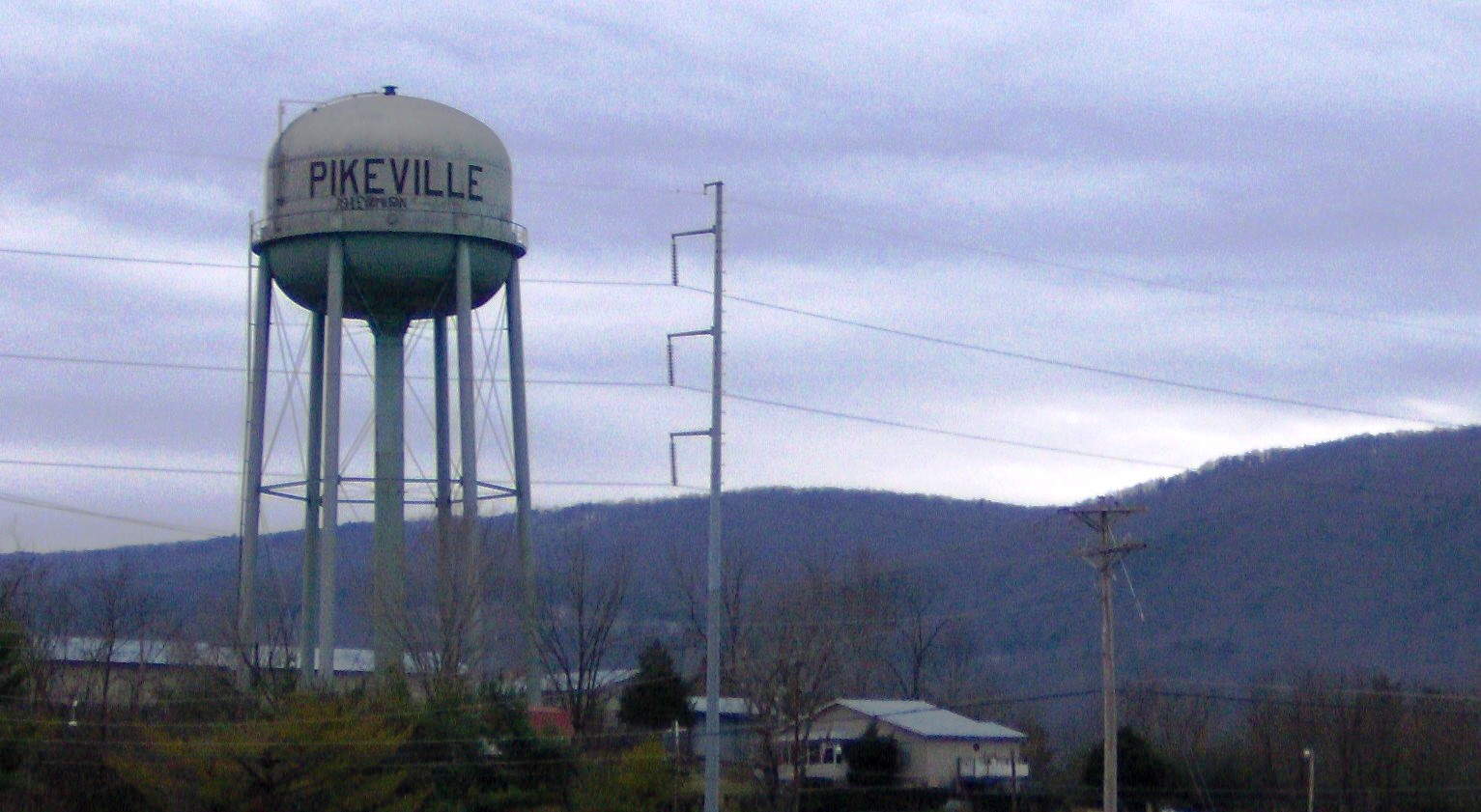 A water tower in Pikeville, Tennessee, located in the Southeastern United States. The Cumberland Plateau's western Sequatchie escarpment, known as "Little Mountain," spans the photo's background. This view is from US-127, looking southwest.